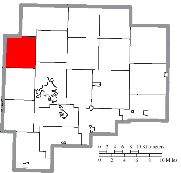 Map of the municipal and township boundaries of Guernsey County, Ohio, United States, as of the 2000 census, with the location of Knox Township highlighted. Township borders are shown only in unincorporated areas in order to differentiate incorporated and unincorporated areas more clearly.